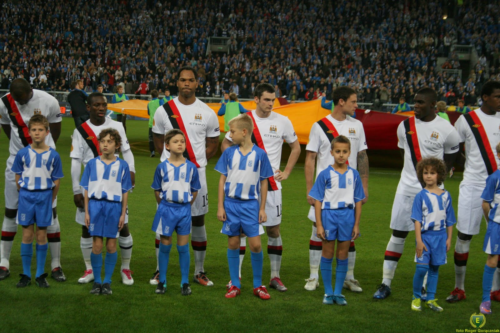 Man City players line-up Lech Poznań vs Manchester City FC, 4 November, 2010